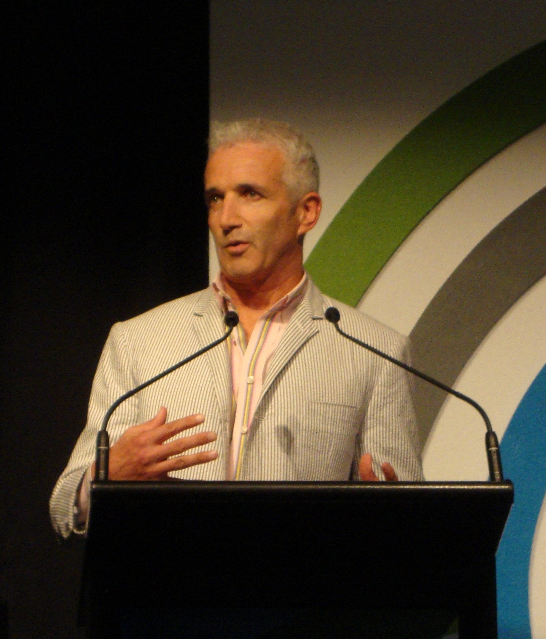 Rob Fyfe speaking at a conference.